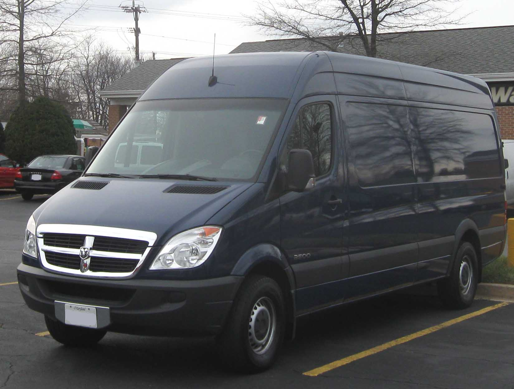 2008-2009 Dodge Sprinter photographed in Olney, Maryland, USA.